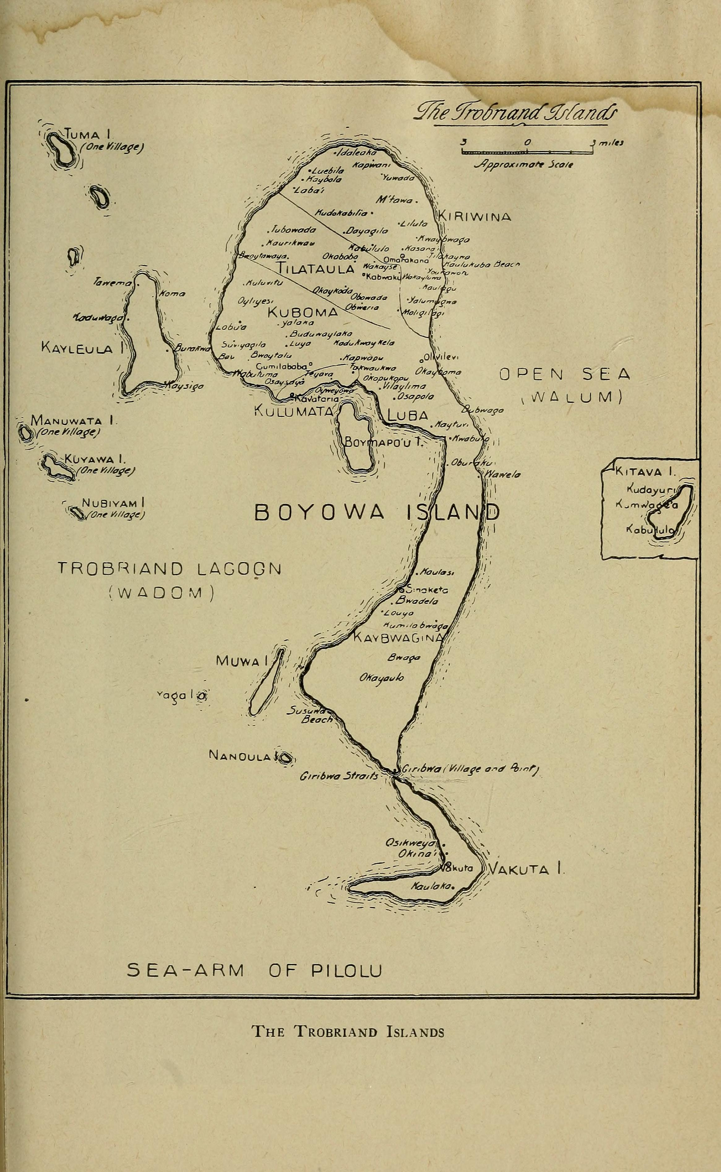 Historical map of the Trobriand Islands, with subdivision into traditional districts